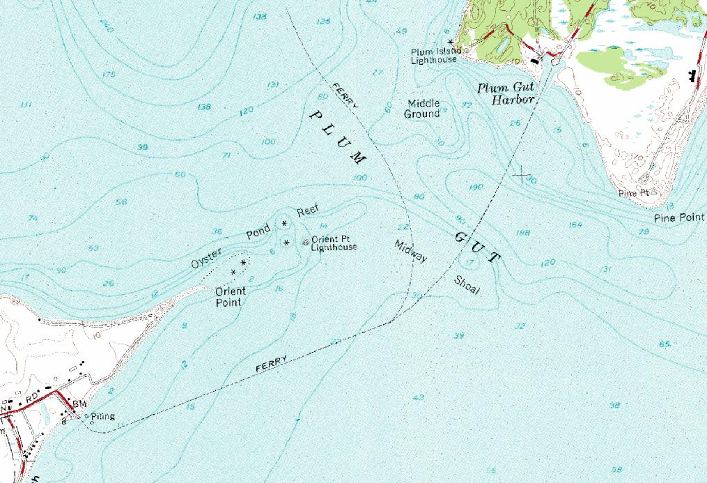 Showing Orient Point Light